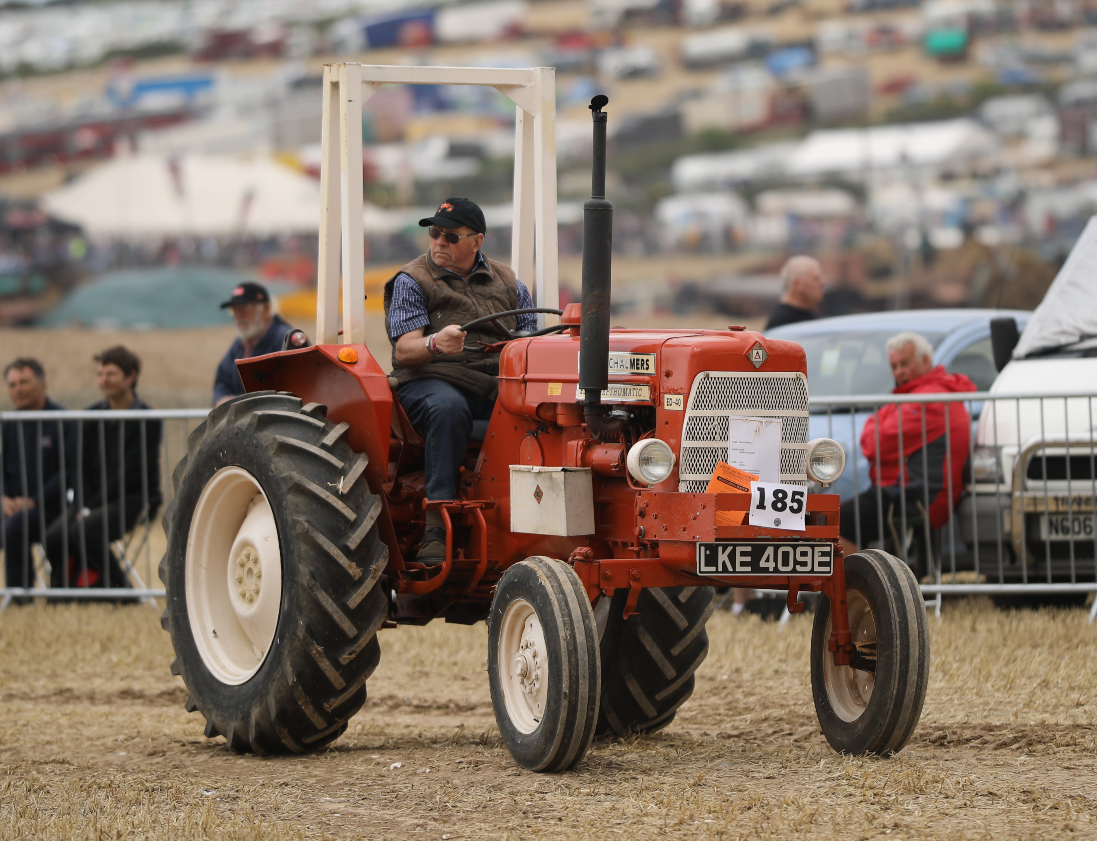 Photo of an Allis Chalmers ED40 dating from 1967. 2018 GDSF program number 185